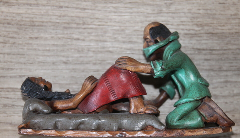 Image from Peru of a doctor who helps a woman childbirth